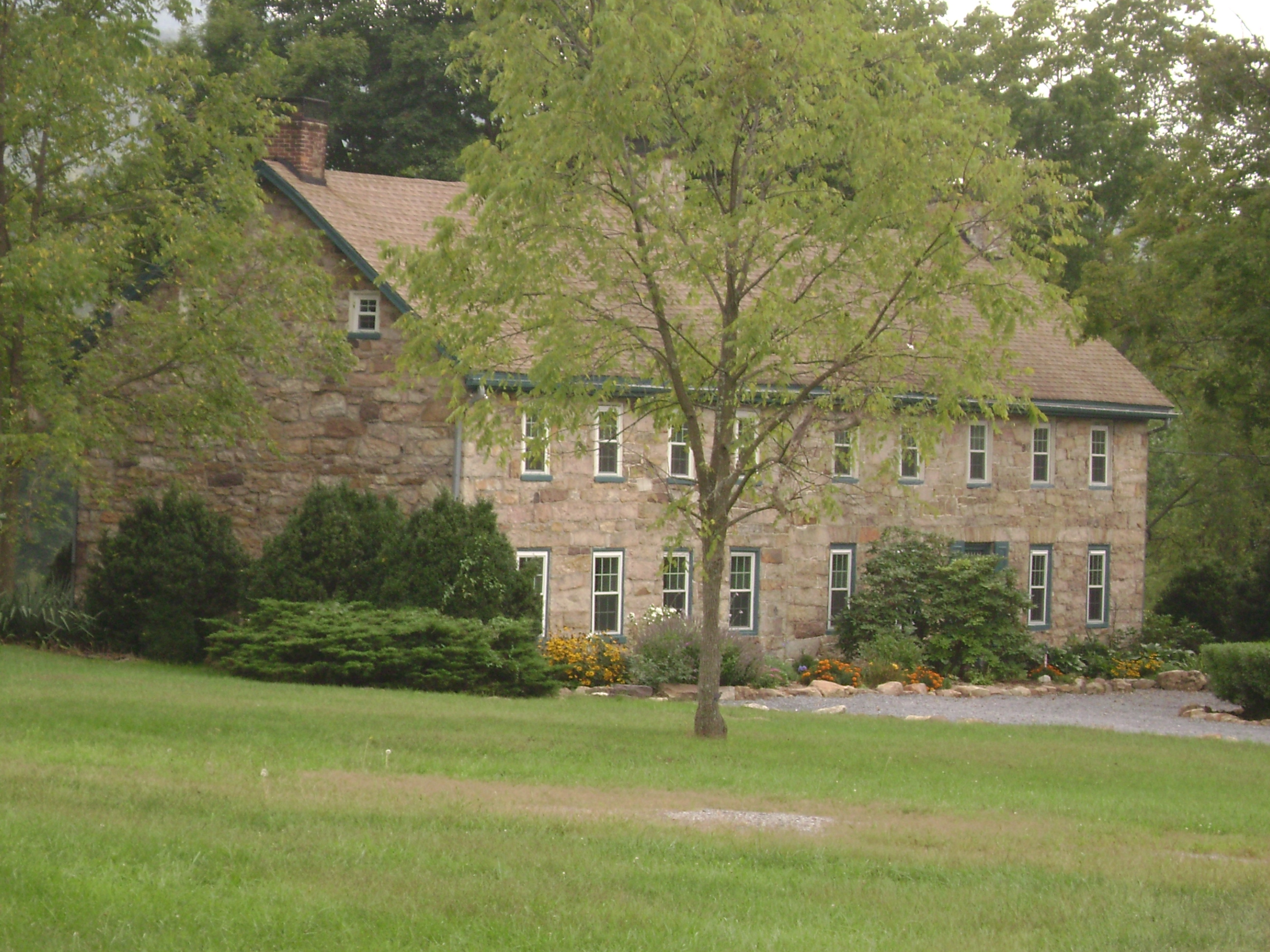 A distance shot of the Mt. Pleasant Iron Works House, on PA Route 75, north of Fort Loudon, PA. The house was built while the Iron Works was in use, and predates the building of the Richmond Furnace on the same location. Taken from Route 75.